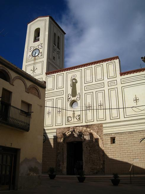 Church Sant Quintí de Mediona (Alt Penedes) Catalonia